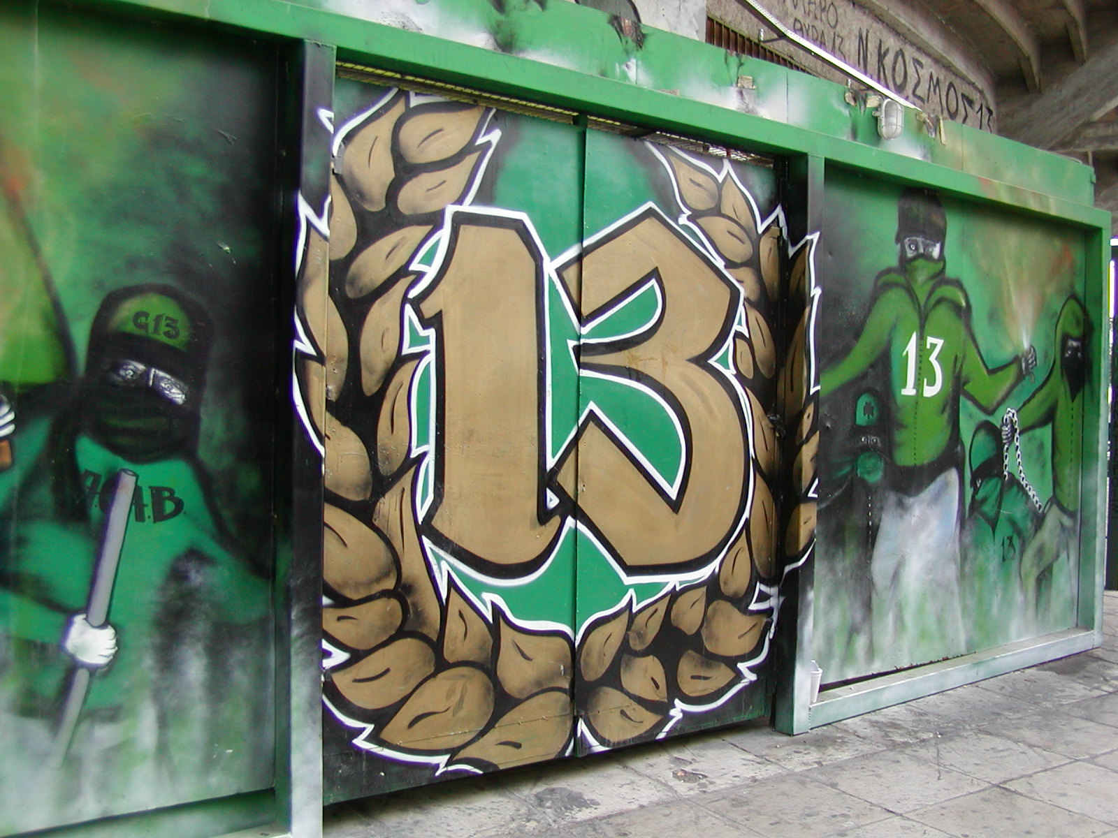 Graffiti mural painted on Apostolos Nikolaidis Stadium Gate 13.